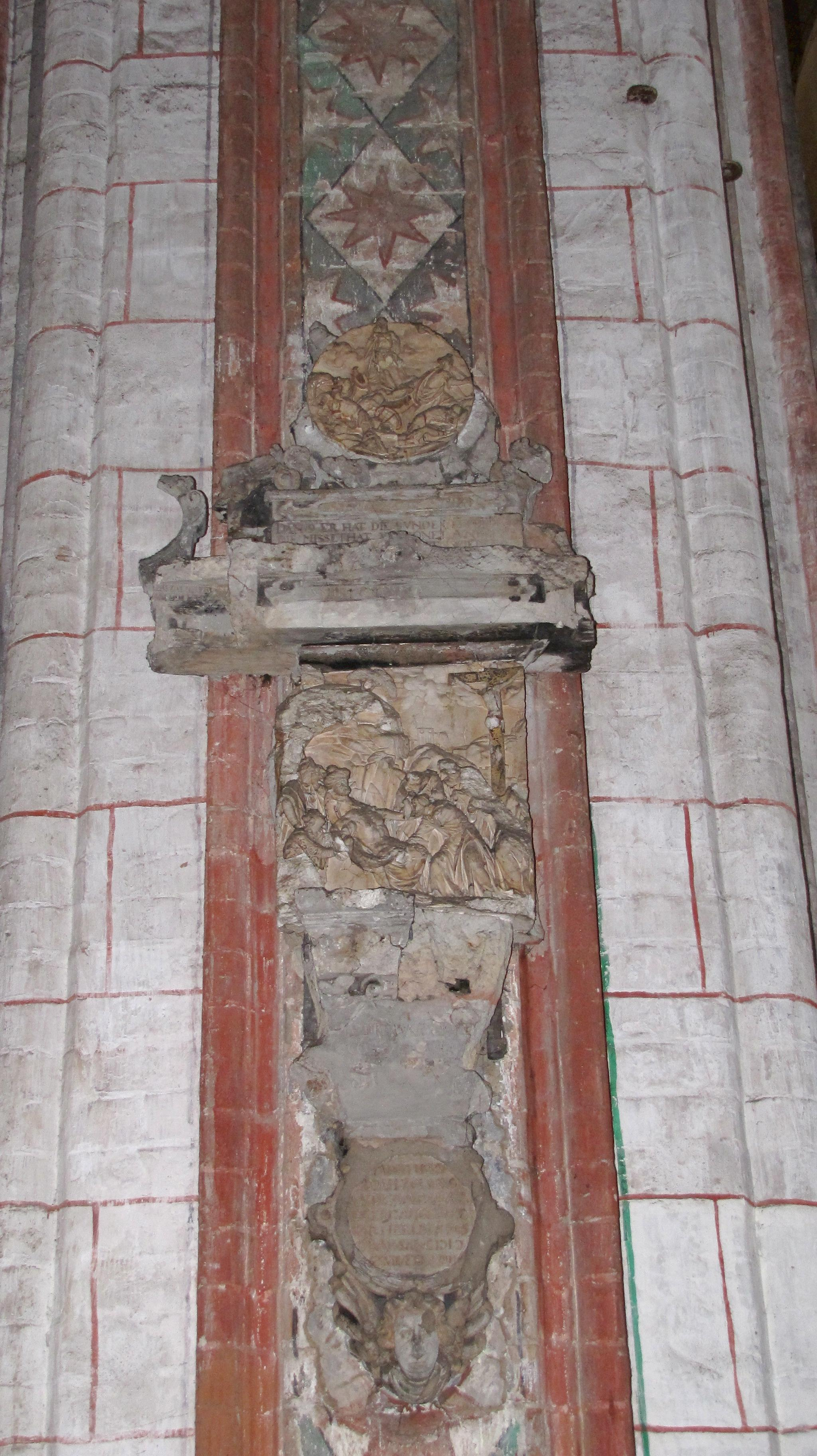 Epitaph of Dr Daniel Zöllner in St. Marien, Lübeck, severely damaged by air raid in 1942. Work of sculptor Robert Coppens.